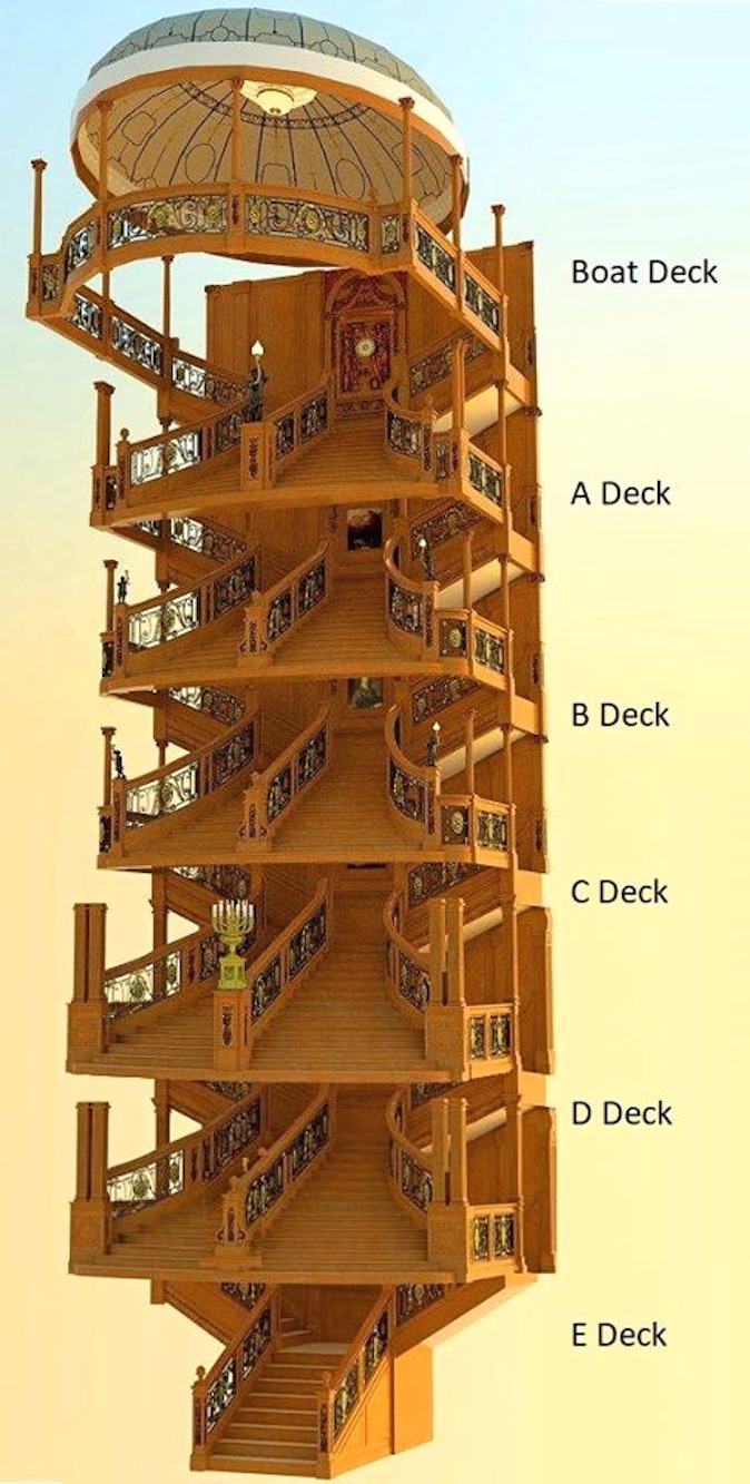 Computer model of the Grand Staircase of the RMS Titanic